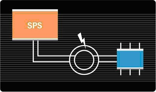 Cable redundancy at Ethernet POWERLINK